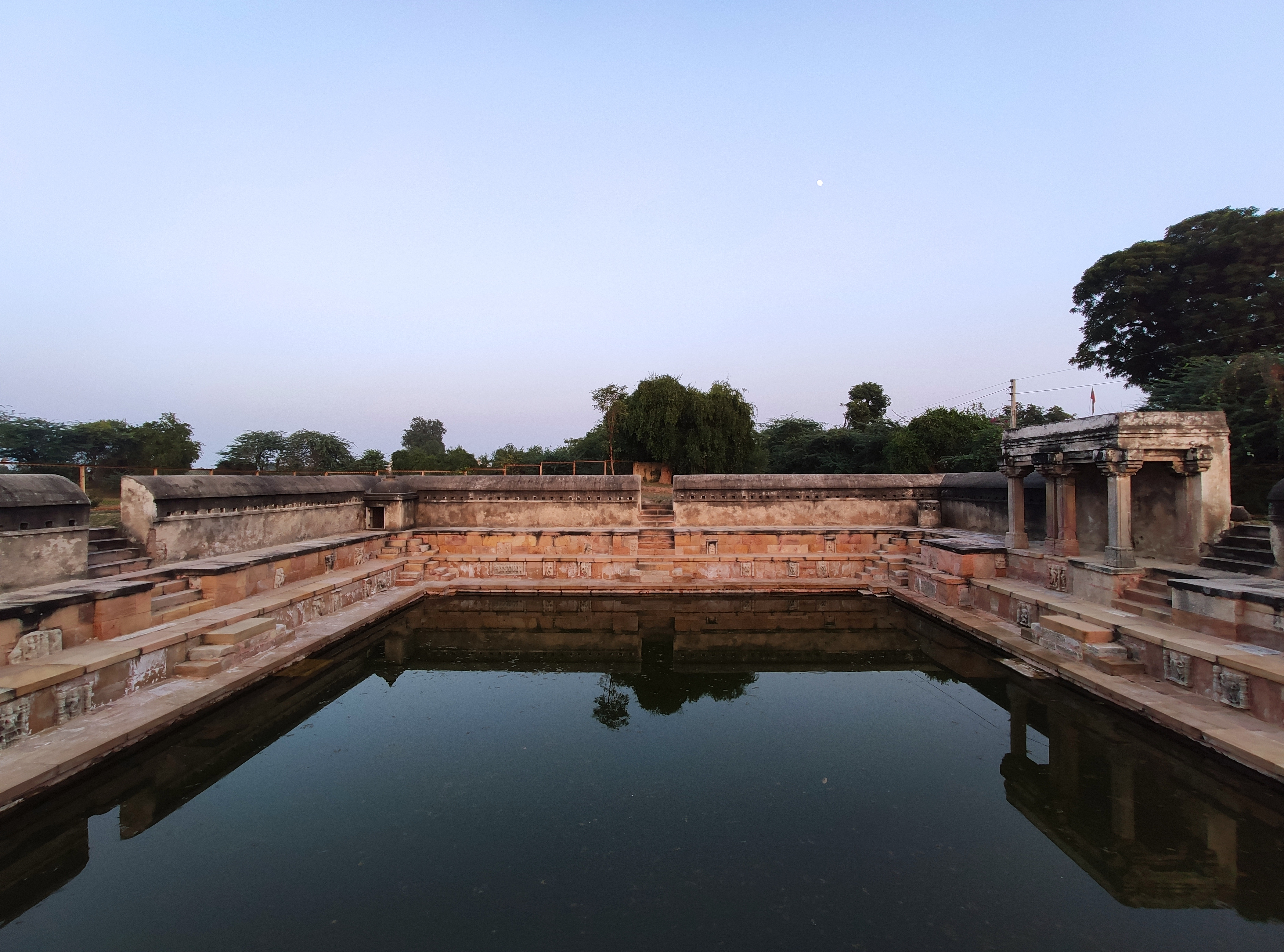 Ajpal Kund (Gauri Kund)